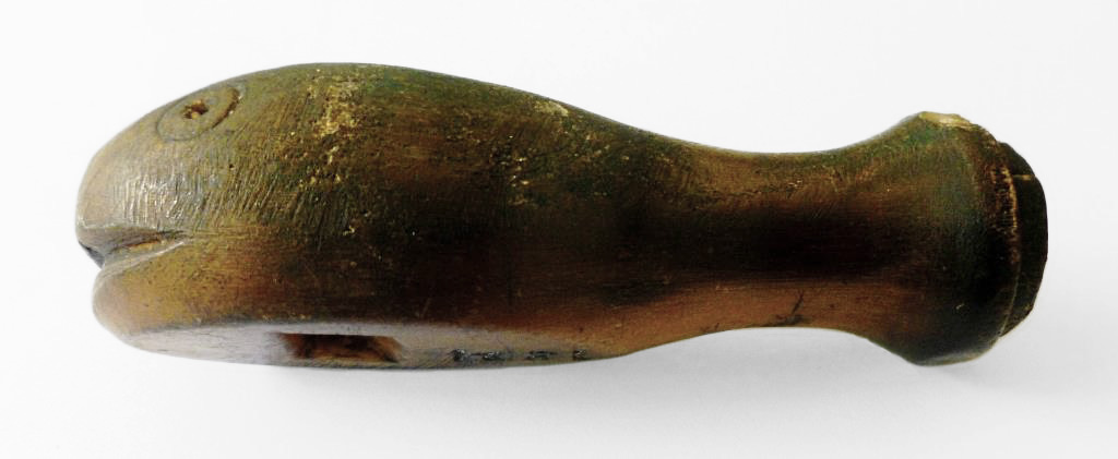 I took this photo of a whistle I inherited from my father when he died. It belonged to his great-great grandfather who was Peeler in London in the early 19th century. Carved whalebone, dated 1821. 8 cm long.